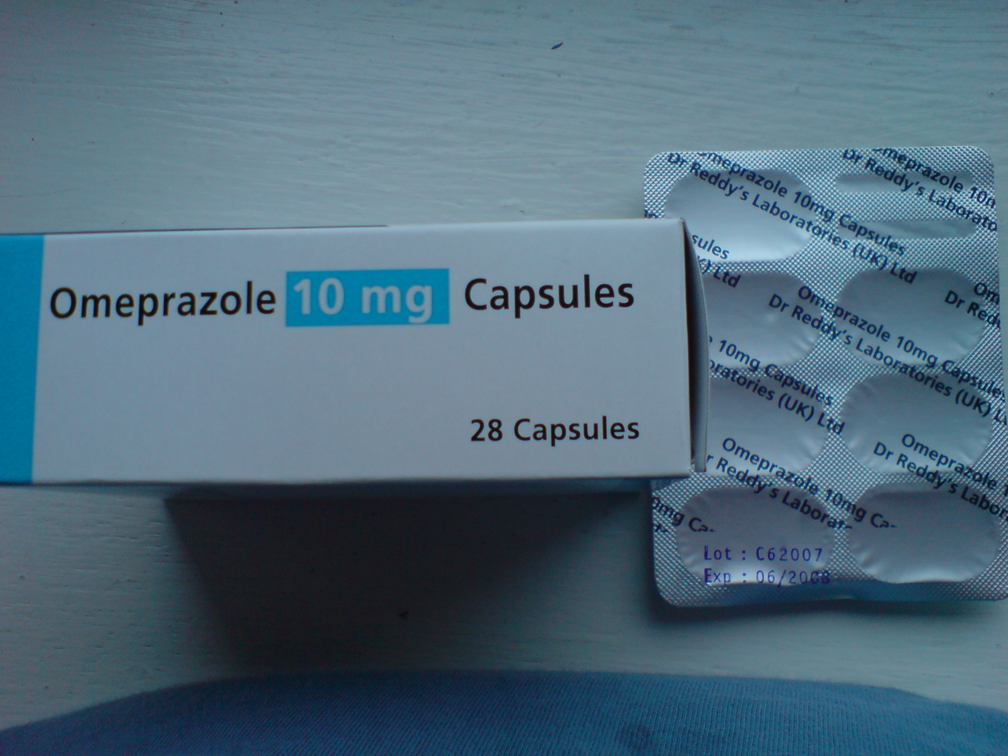 Omeprazole 10mg from UK